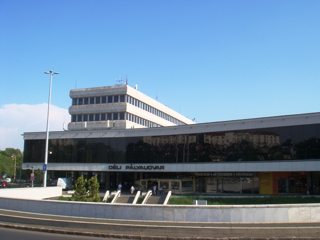 Déli pályaudvar, Budapest Southern-Station.